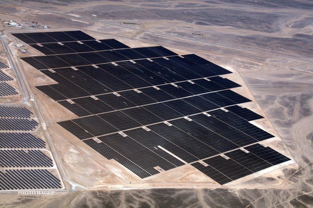 Shams Ma’an Power Generation PSC, is a 52.5MW photovoltaic power plant (PVPP) that went into production of clean energy from the sun by the end of September 2016 led by an agreement with the National Electric Power Company (NEPCO).